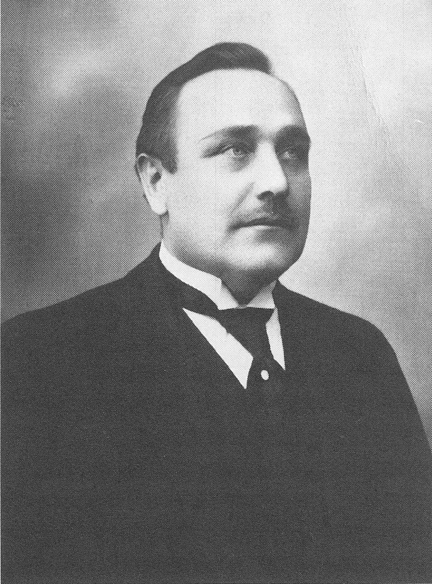 Herman Tuomaala